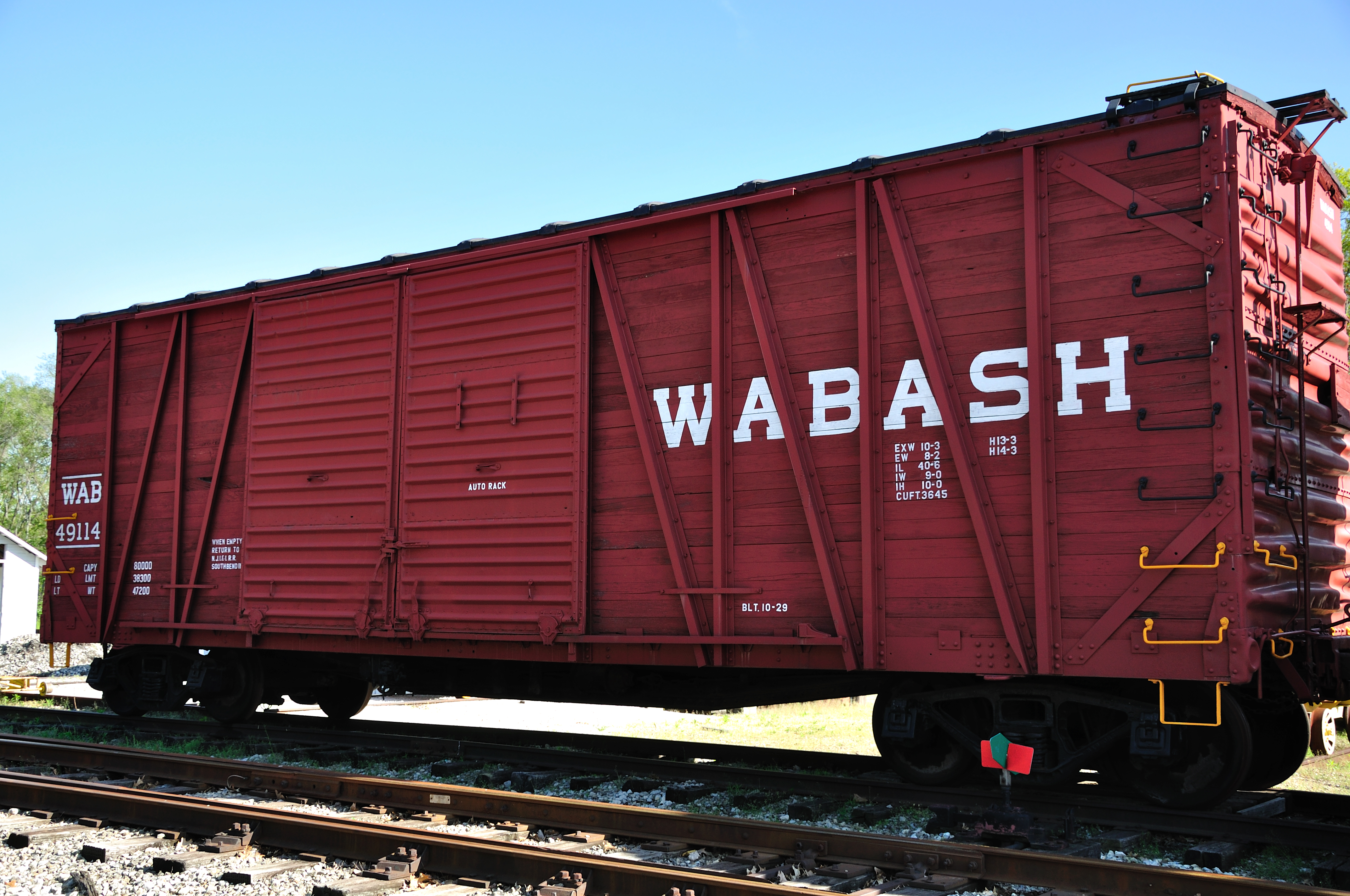 This wooden box car, owned by the Wabash Railroad, was built in the 1920's and assigned to the Studebaker plant in South Bend, Indiana. It was donated to the museum in 1993.